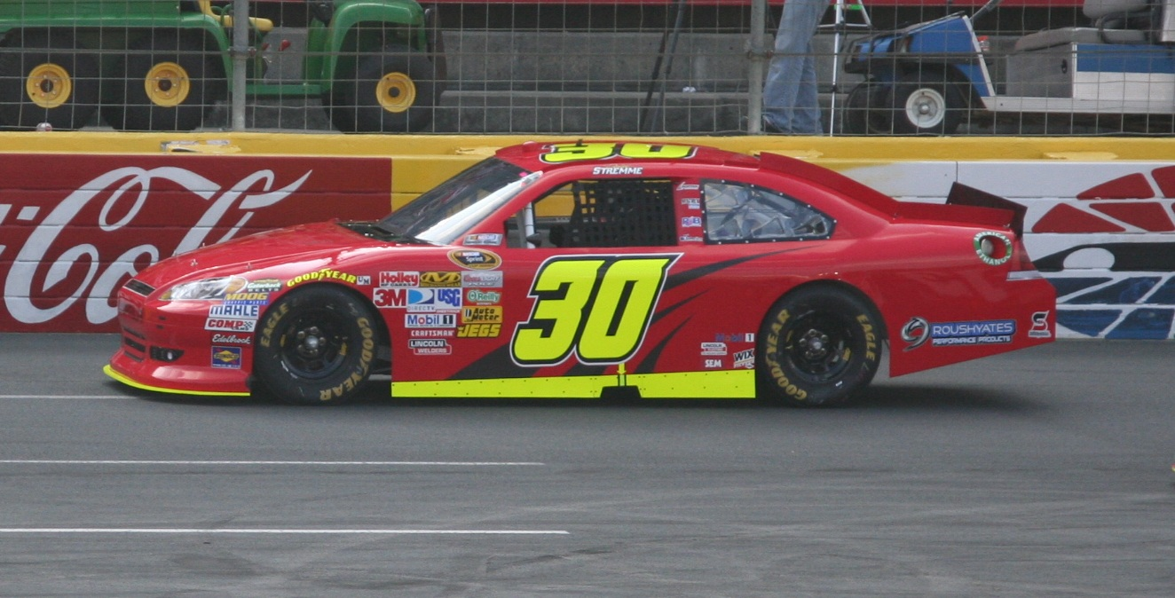 David Stremme drives the No. 30 Chevrolet for Inception Motorsports during the Coca-Cola 600 at Charlotte Motor Speedway on May 29, 2011.